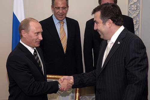 KONSTANTINOVSKY PALACE, SAINT PETERSBURG. With the President of Georgia, Mikhail Saakashvili.